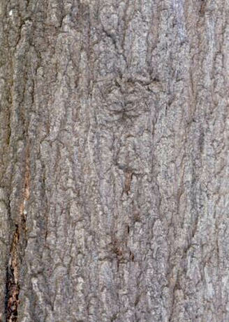 Acacia nilotica bark Photo: Sivan, V.V.